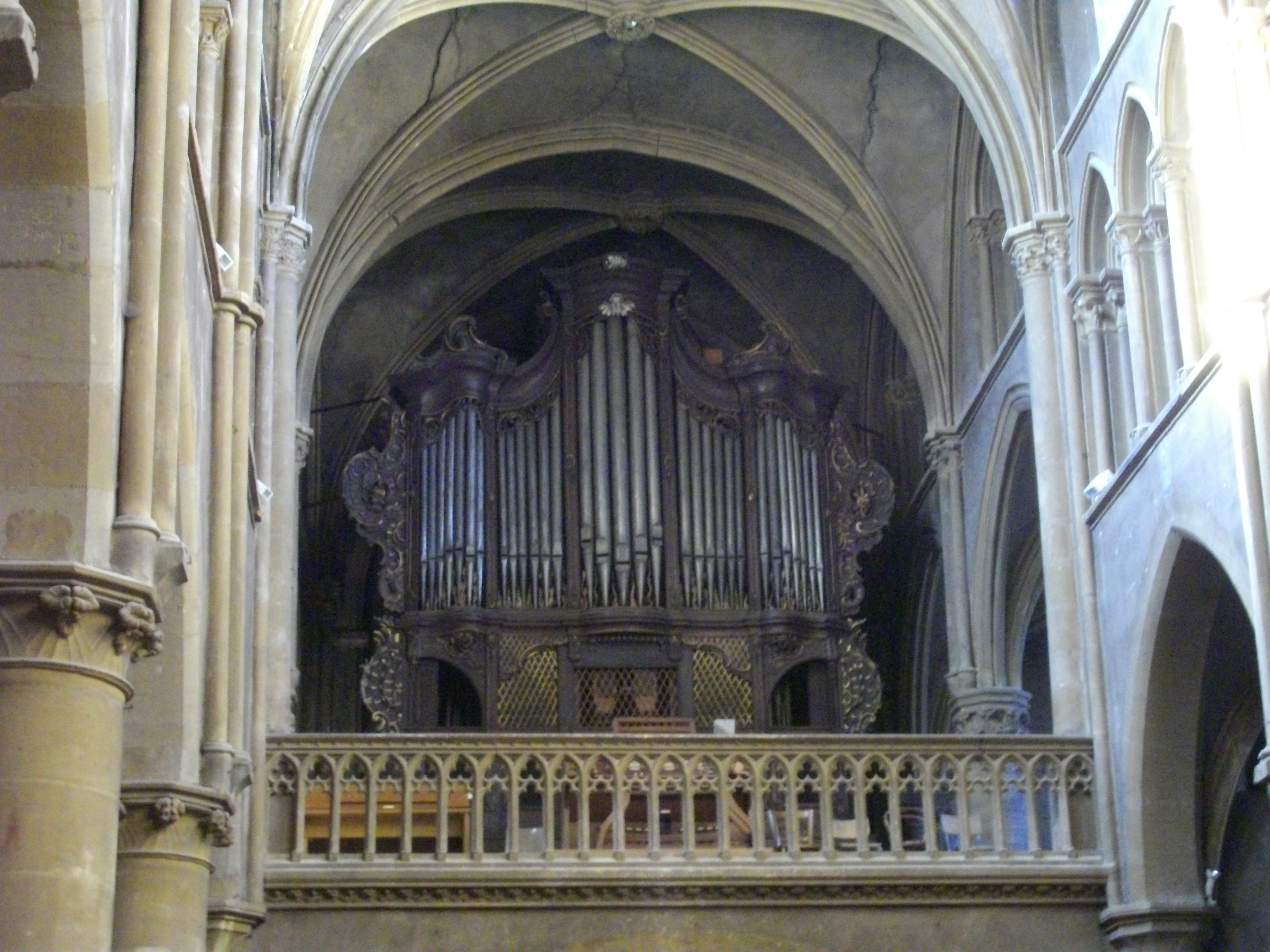 Saint Martin church in Metz (Moselle, France) ; pipe organ